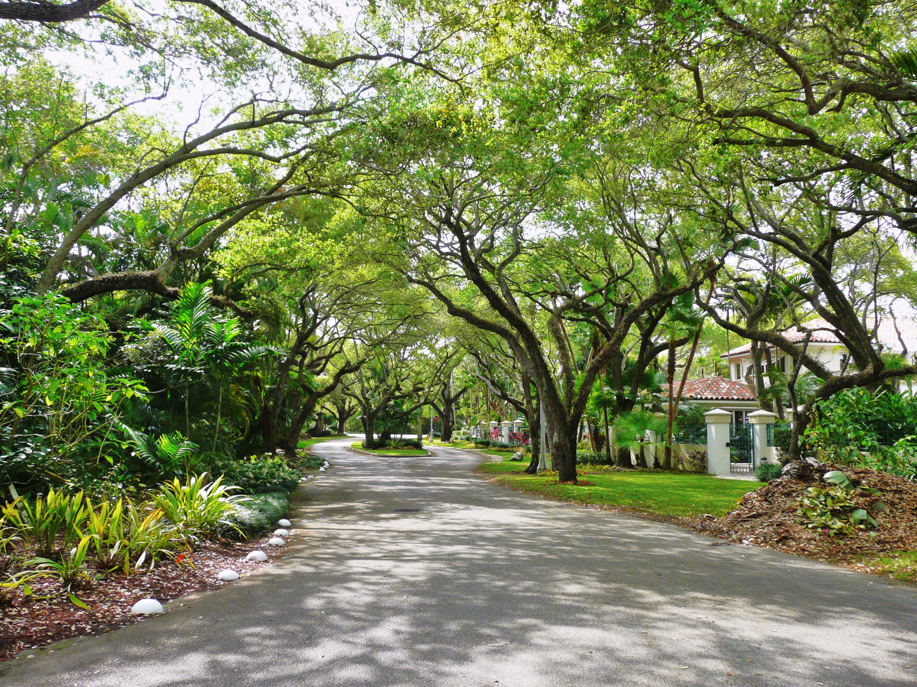 Digital photo taken by Marc Averette. typical street in Coral Gables, Florida, United States.